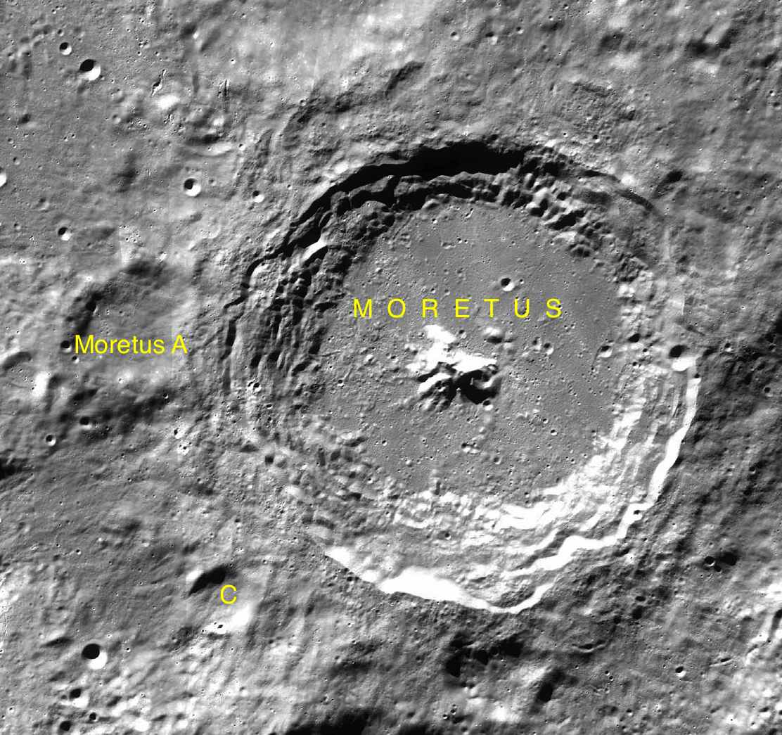 Part of the chart LAC-137 used for the presentation